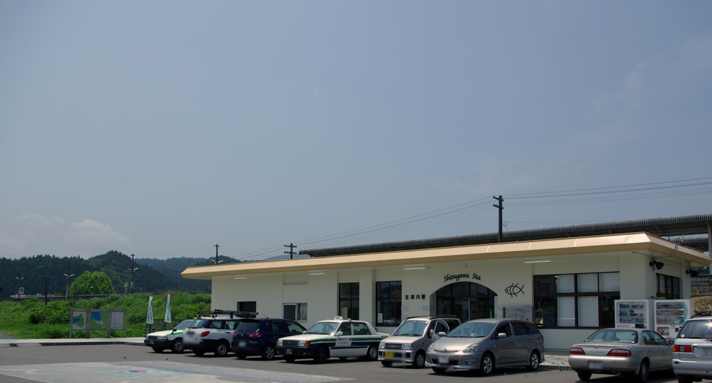 Shizugawa Station in Kesennuma Line. Minamisanriku, Miyagi.